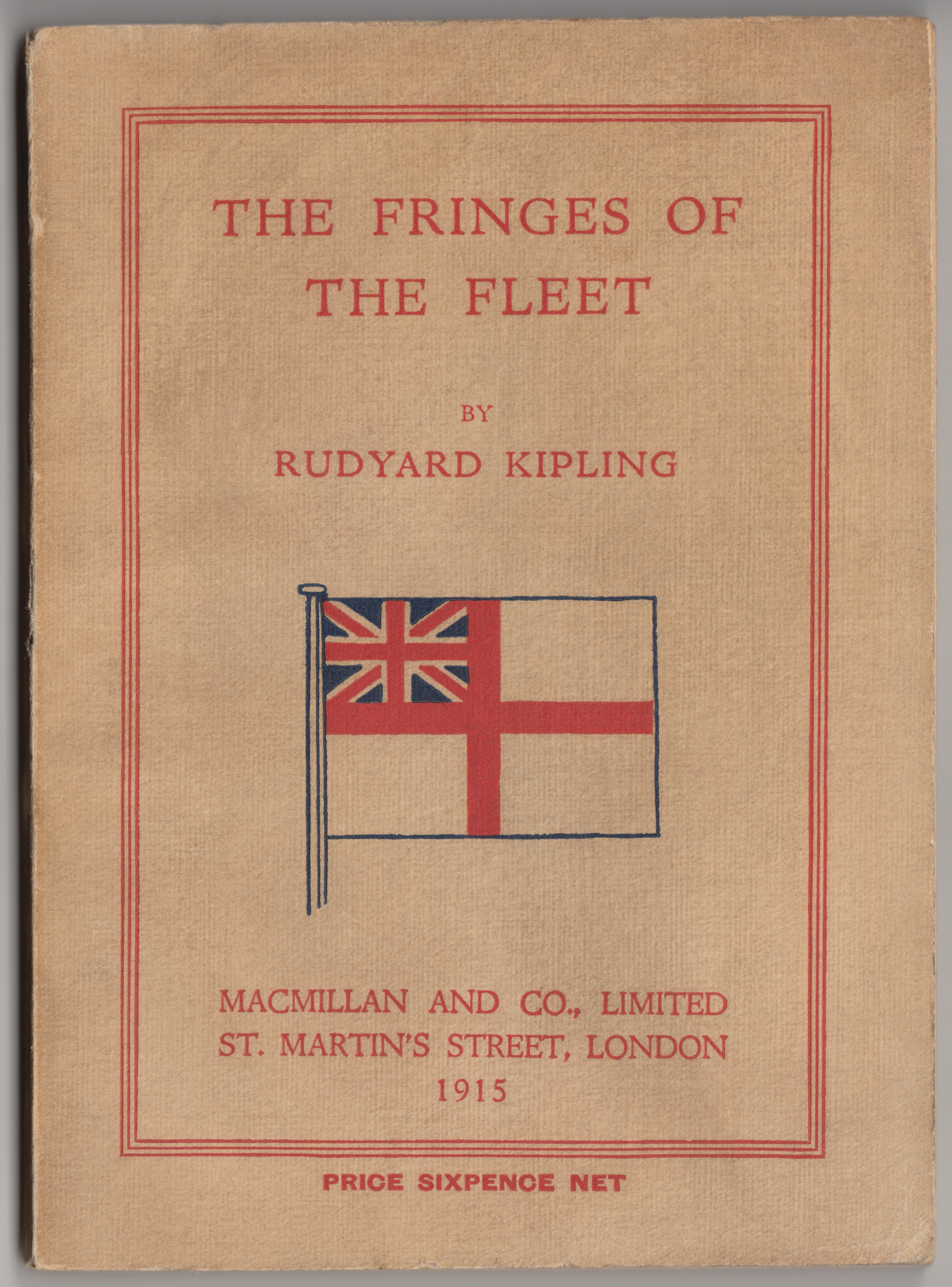 Cover of The Fringes of the Fleet, a book by Rudyard Kipling published by Macmillan and Co., London, in 1915.